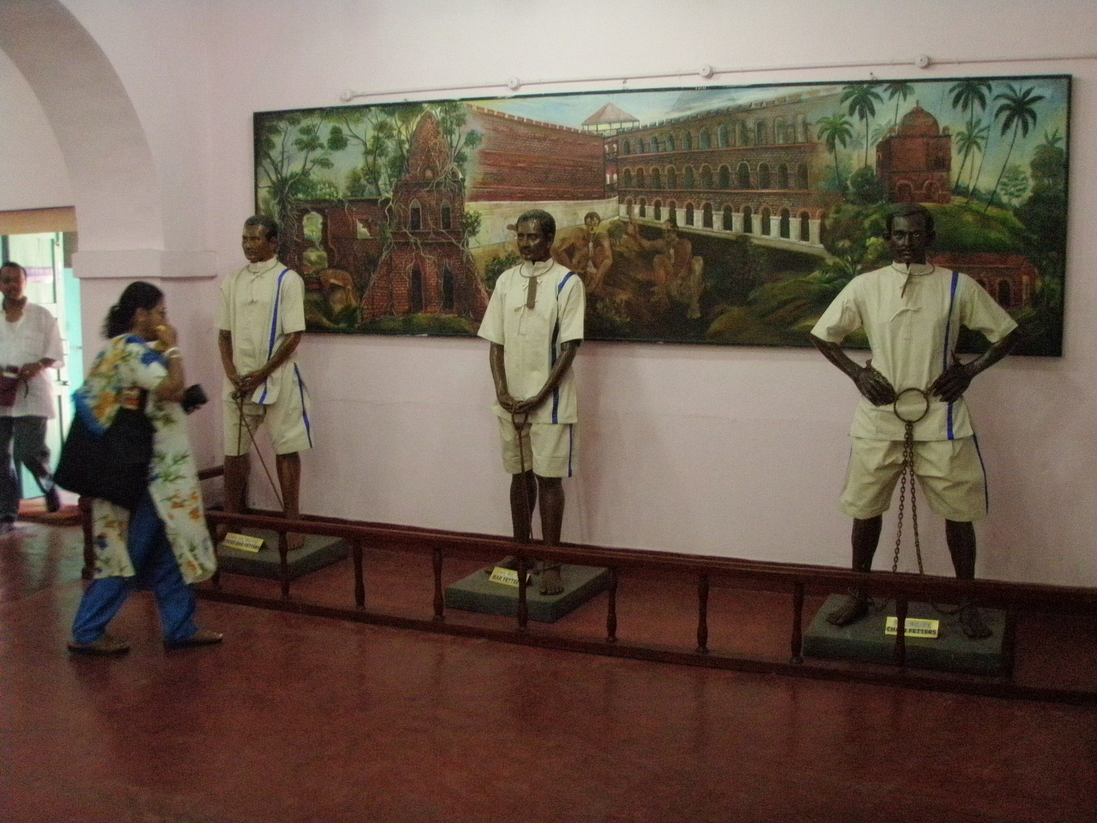 The Andaman Cellular Jail was the shadiest prison of the British rule in india. Now it is Indian National Memorial and tourist attraction at Port Blair, Andaman. There is a museum also.